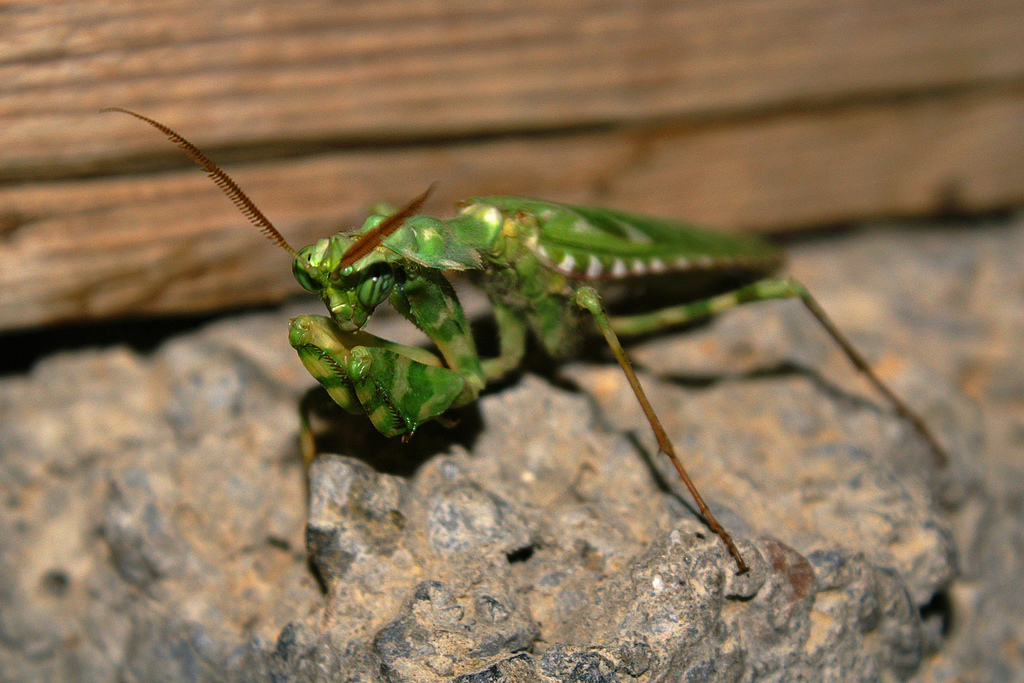 PreyingMantis2 (Oman)